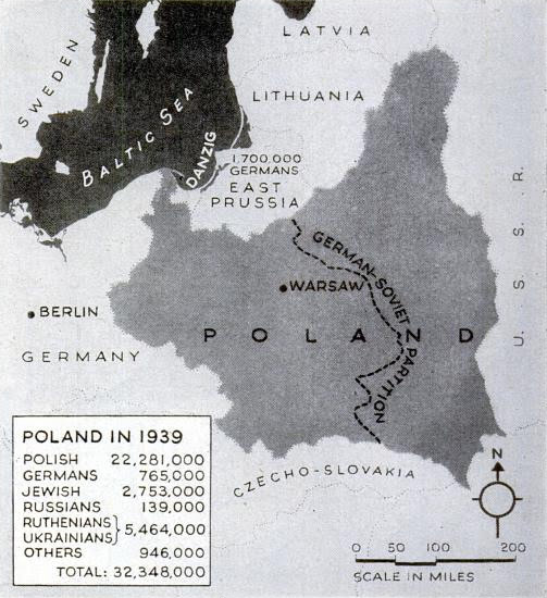 map of Poland in late 1939 after the Soviet and German invasions